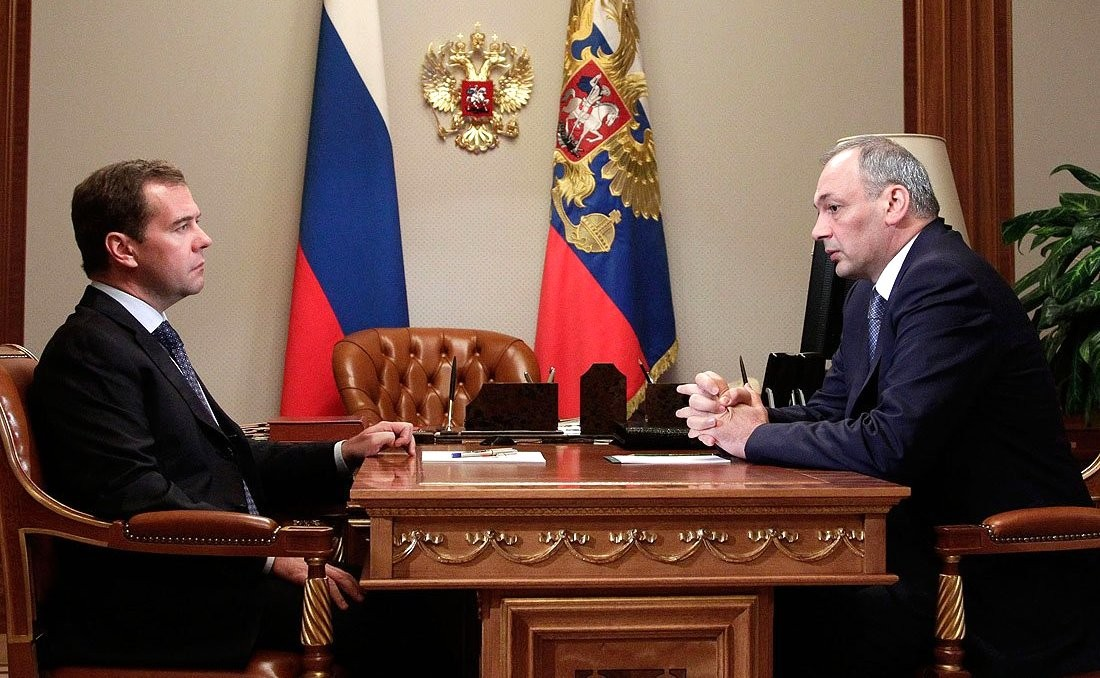 President of Russian Federation Dmitry Medvedev with President of Daghestan Magomedsalam Magomedov